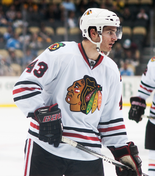 Chicago Blackhawks #43 Brandan Saad